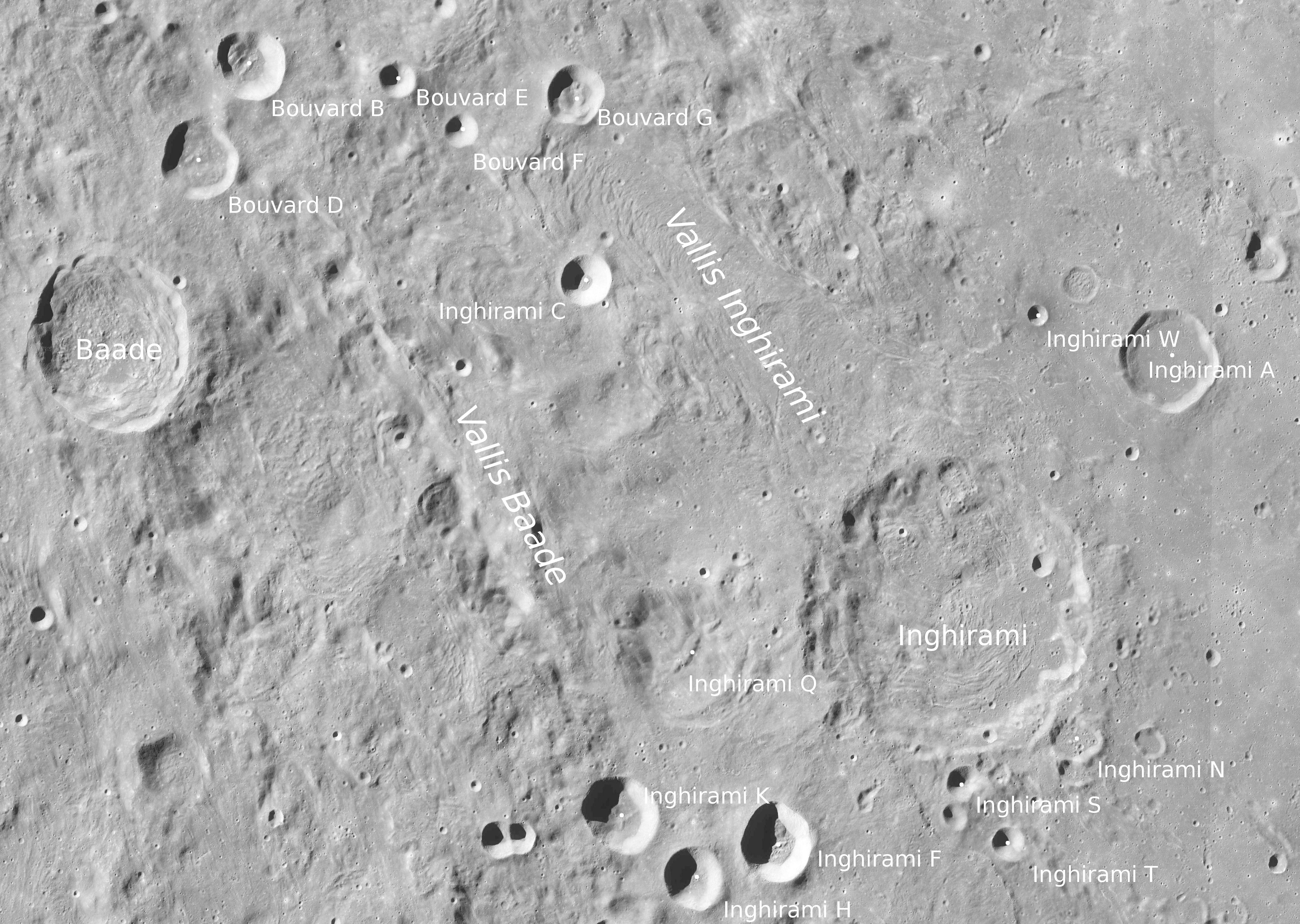 Craters Baade with Vallis Baade and Inghirami with Vallis Inghirami (detail of LRO - WAC global moon mosaic; Mercator projection)